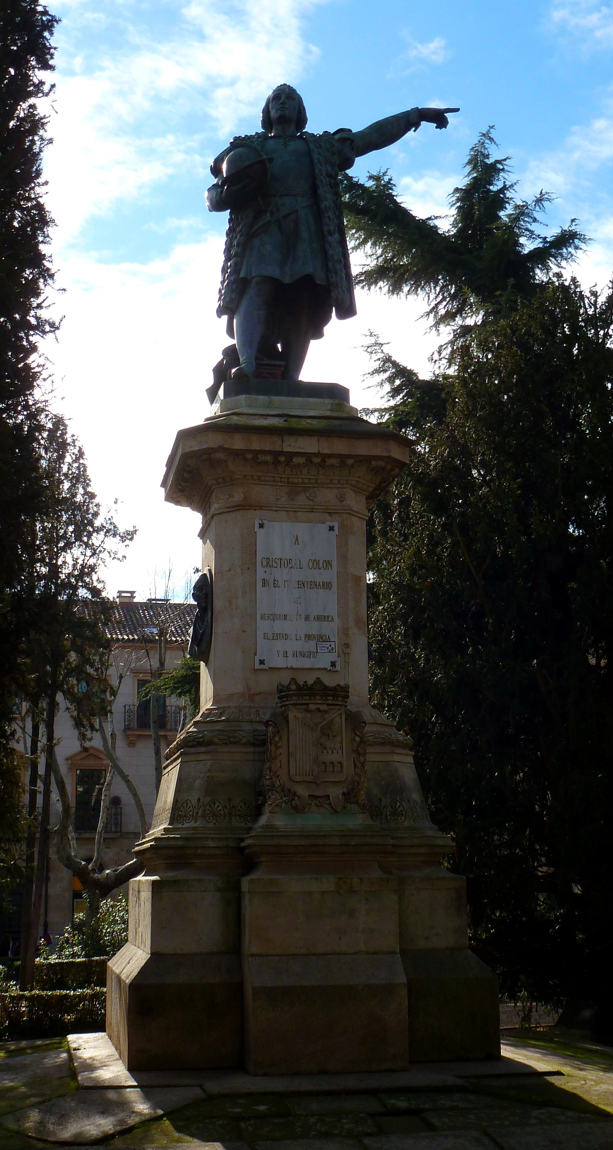 Monument to Christopher Columbus in Salamanca (Spain), work by sculptor Eduardo Barrón.